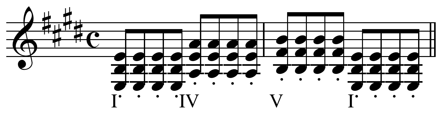 Power chords in progression create parallel fifths, though the prohibit is not relevant since there is not intention to create independent voices. Created by Hyacinth (talk) 03:21, 29 January 2012 (UTC) using Sibelius 5.